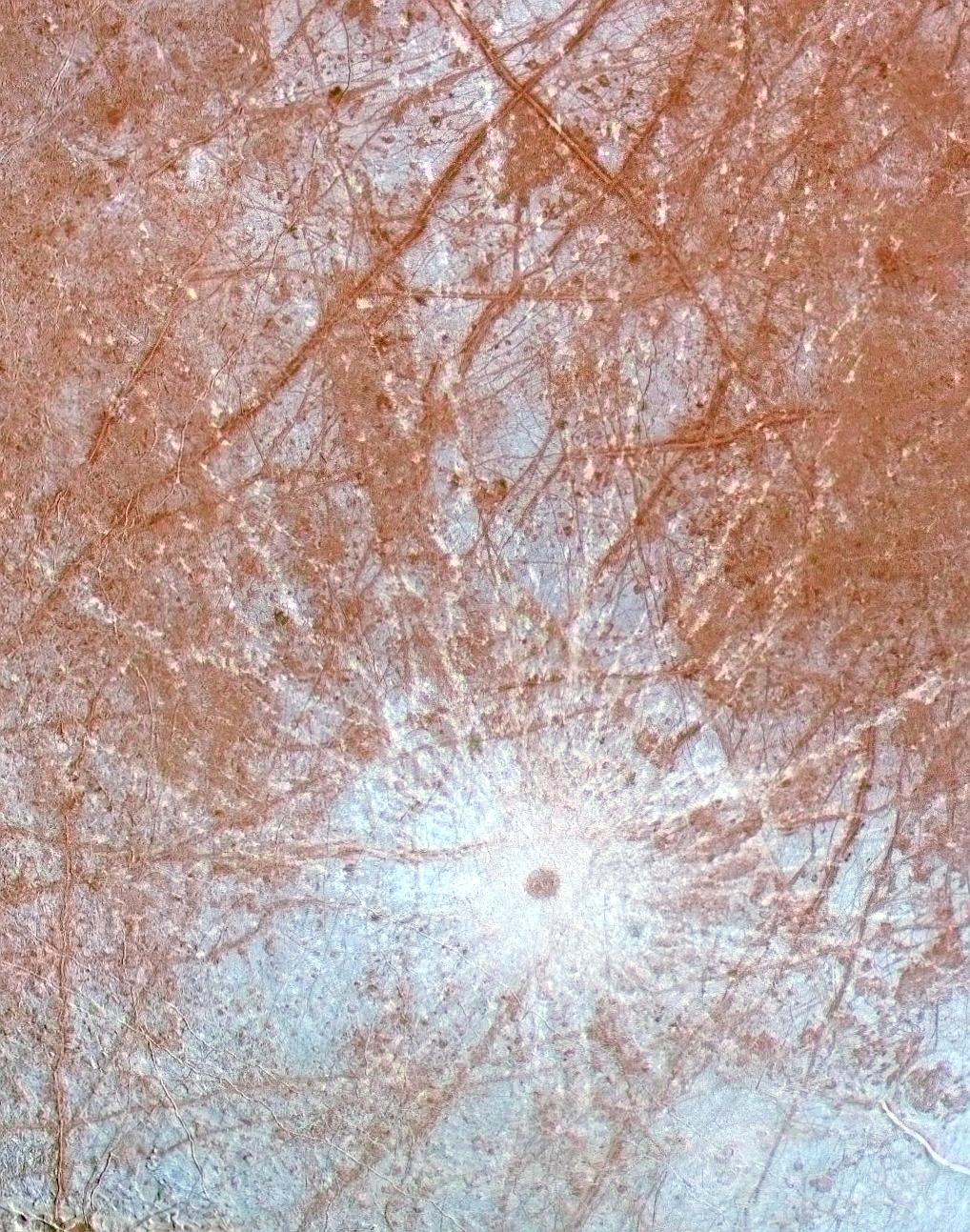 This enhanced color image of the region surrounding the young impact crater Pwyll on Jupiter's moon Europa was produced by combining low resolution color data with a higher resolution mosaic of images obtained on December 19, 1996 by the Solid State Imaging (CCD) system aboard NASA's Galileo spacecraft. This region is on the trailing hemisphere of the satellite, centered at 11 degrees South and 276 degrees West, and is about 1240 kilometers across. North is toward the top of the image, and the sun illuminates the surface from the east. The 26 kilometer diameter impact crater Pwyll, just below the center of the image, is thought to be one of the youngest features on the surface of Europa. The diameter of the central dark spot, ejecta blasted from beneath Europa's surface, is approximately 40 kilometers, and bright white rays extend for over a thousand kilometers in all directions from the impact site. These rays cross over many different terrain types, indicating that they are younger than anything they cross. Their bright white color may indicate that they are composed of fresh, fine water ice particles, as opposed to the blue and brown tints of older materials elsewhere in the image. Also visible in this image are a number of the dark lineaments which are called "triple bands" because they have a bright central stripe surrounded by darker material. Scientists can use the order in which these bands cross each other to determine their relative ages, as they attempt to reconstruct the geologic history of Europa.